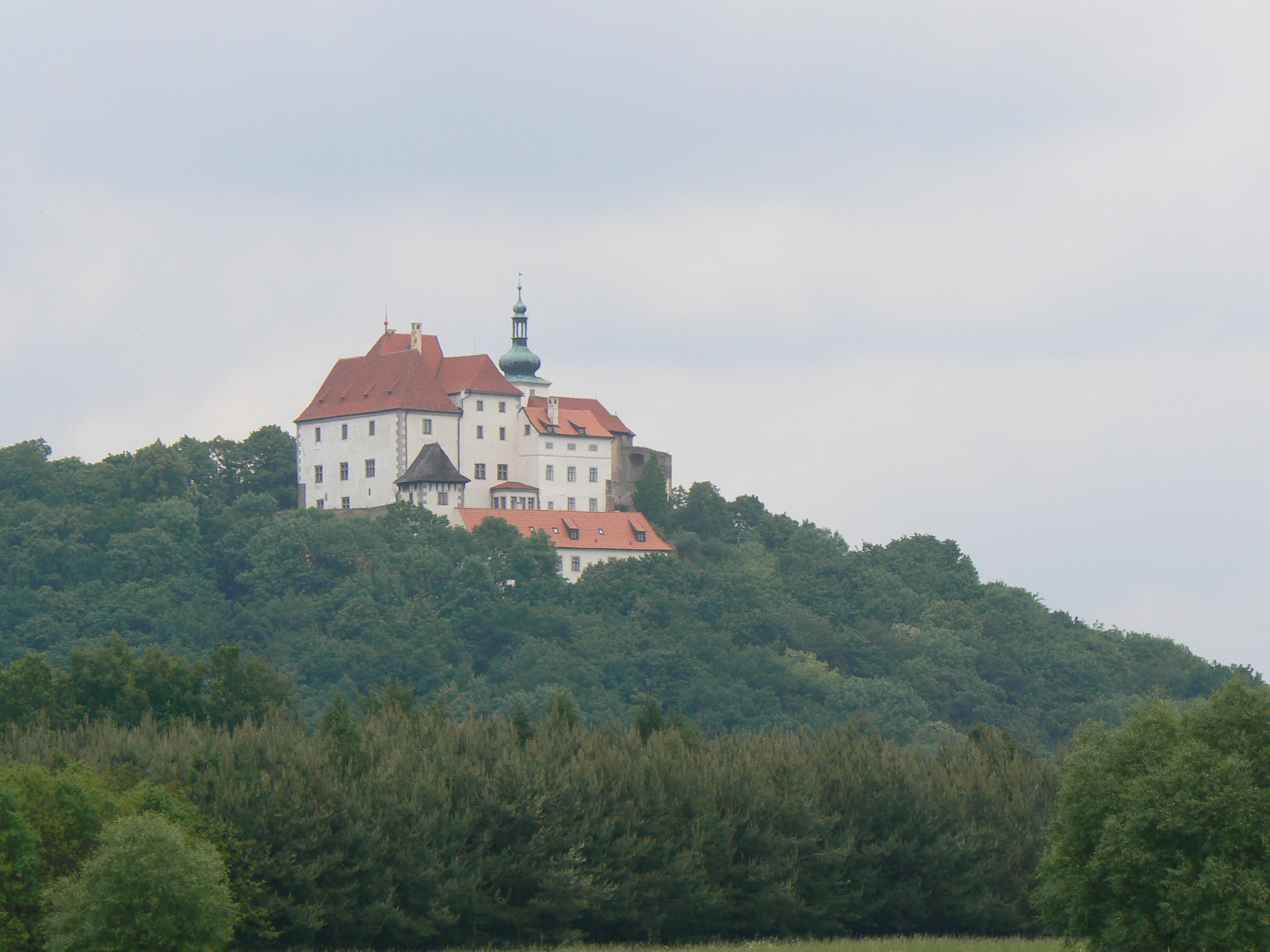 Vysoký Chlumec, view from south